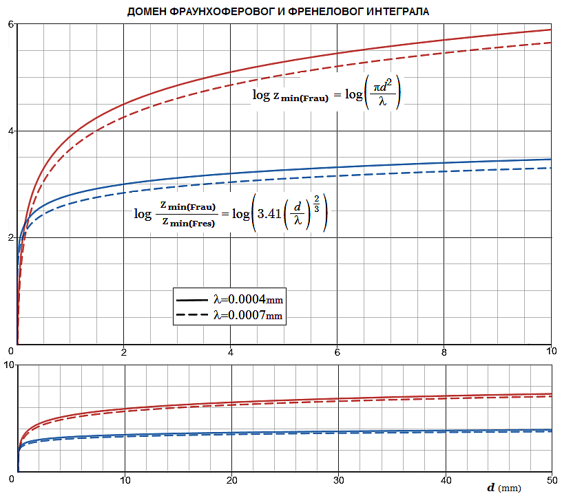 ФРАУНХОФЕР И ФРЕНЕЛ ДИФРАКЦИОНИ ДОМЕН